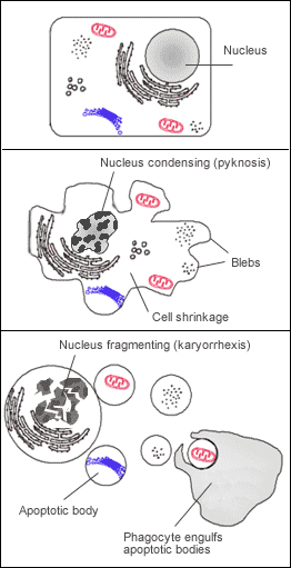 Labelled diagram of a cell undergoing apoptosis. File adapted from a German Wikipedia entry